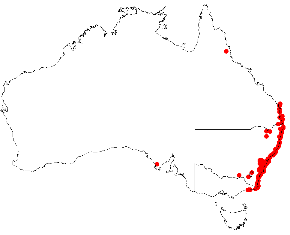 Bossiaea ensata Occurrence data downloaded 11 September 2018 from Australasian Virtual Herbarium